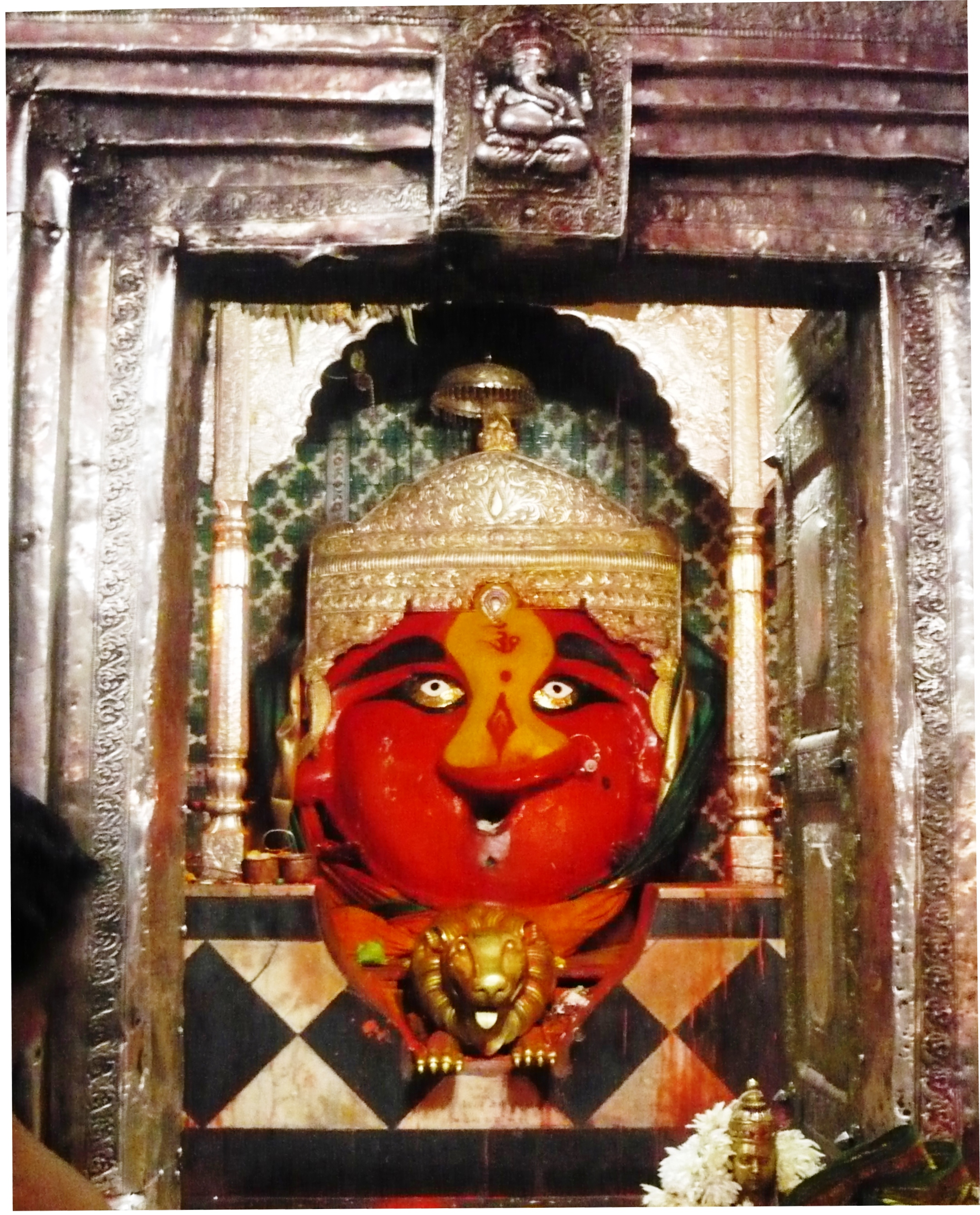 This is a statue of Renuka Devi of Mahur,dist-Nanded of Maharashtra state, India.